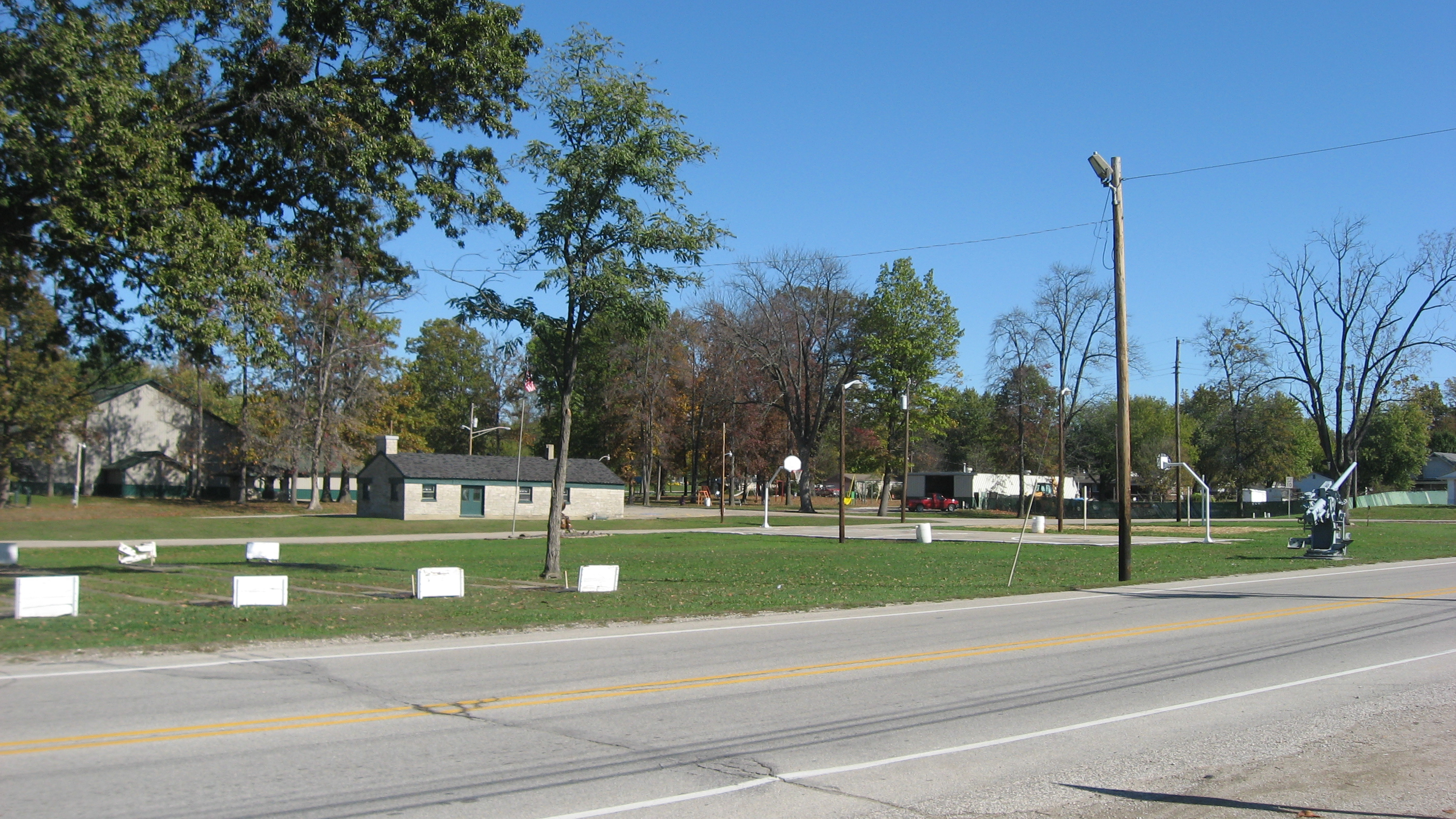 A community park on State Street (State Road 54) on the west side of Dugger, Indiana, United States.